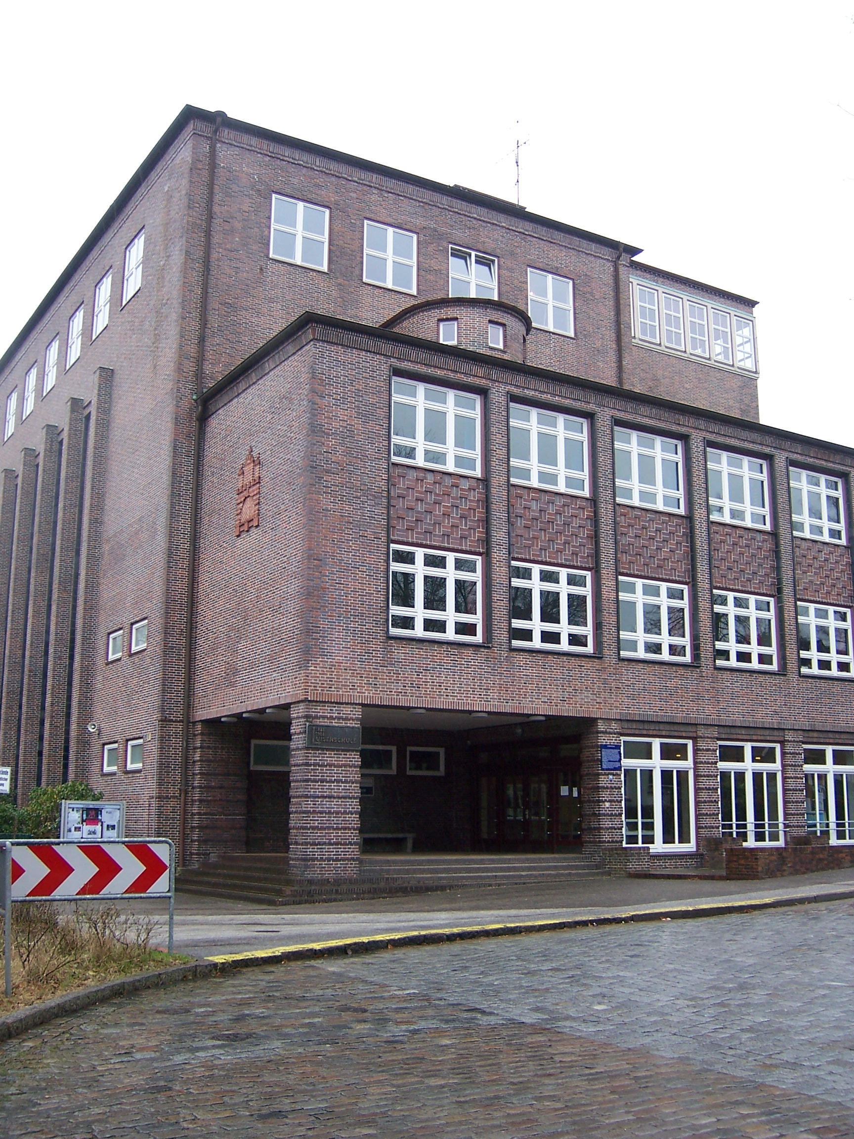 The Luisengymnasium in Hamburg-Bergedorf, frontside.